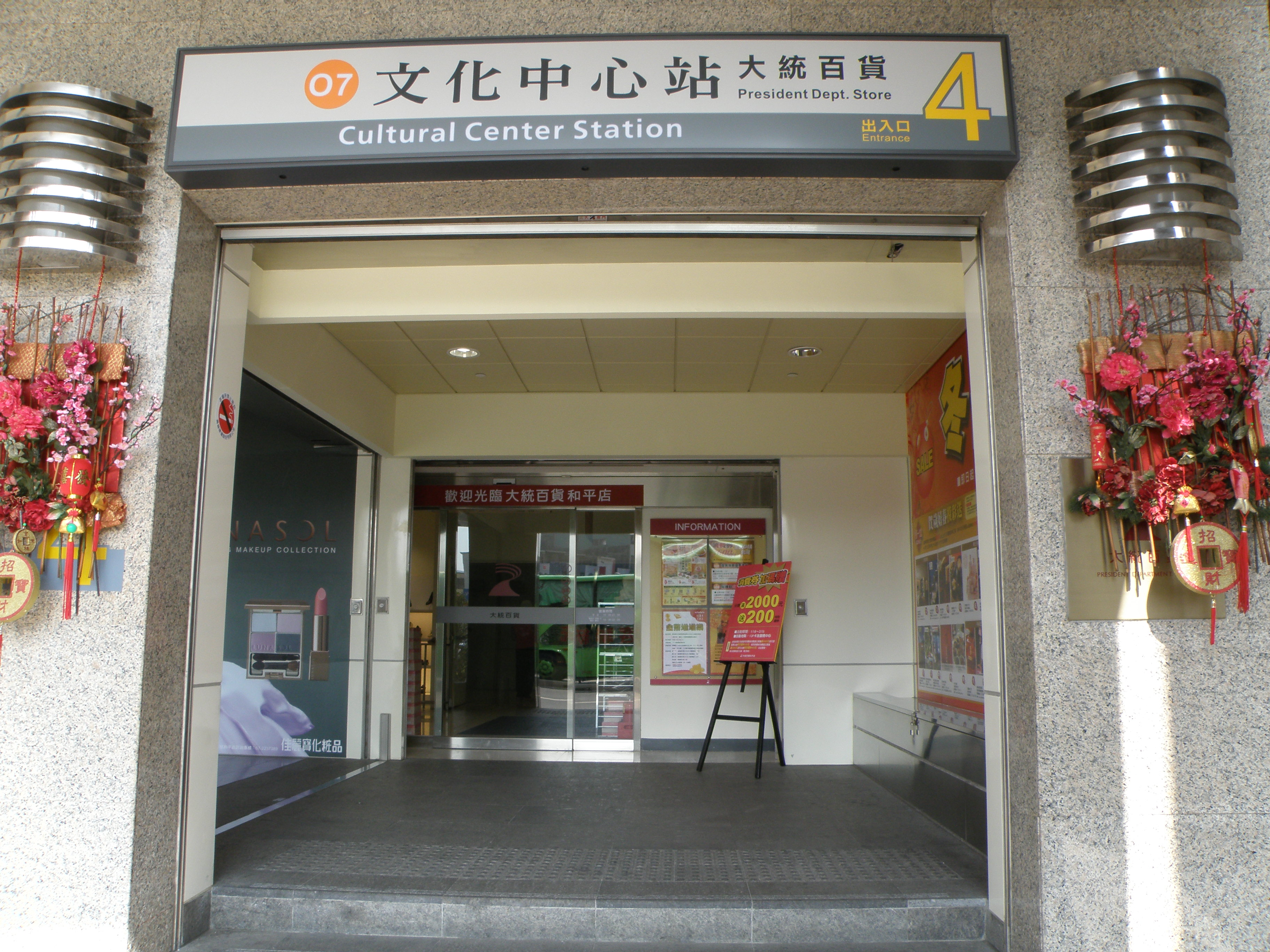 Exit 4 of Cultural Center Station, Kaohsiung Mass Rapid Transit.